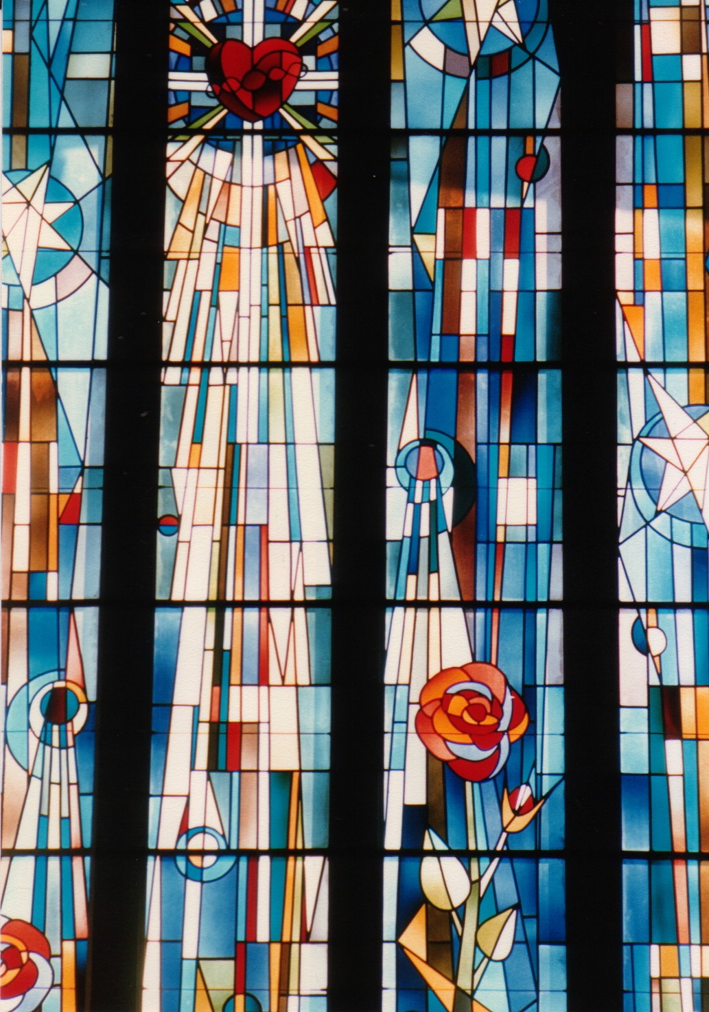 Stained glass showing an image of the sacred heart and roses, from chapel that used to be part of a convent (now a Baptist church and school complex) in El Cajon, California